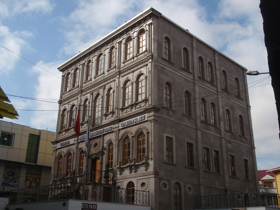 The office of the Union of Chambers of Turkish Engineers and Architects in Trabzon, Turkey.